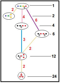 Subset of File:Hyperbolic subgroup tree 36.png